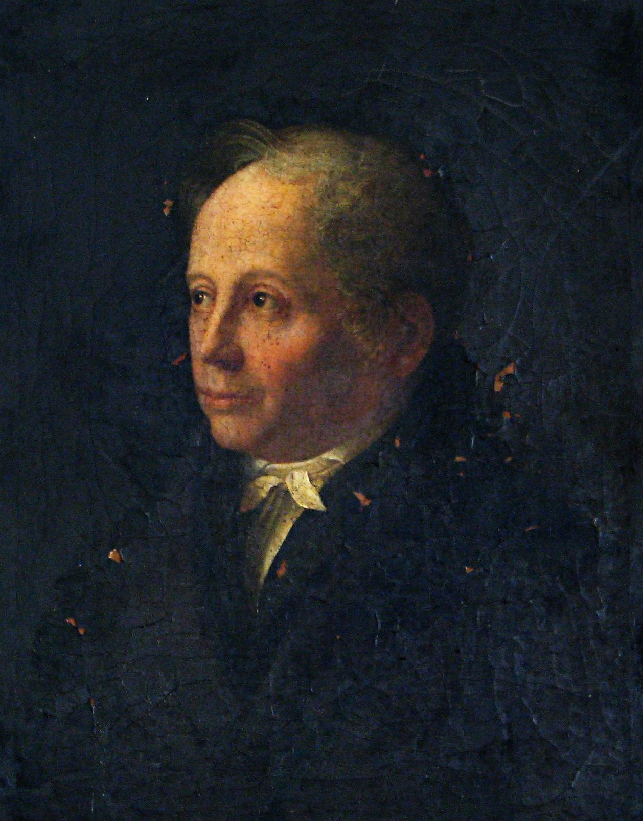 Johannes Veit, Porträt Simon Veit, 1809–1810, Öl auf Leinwand, 63 cm x 49 cm. Jüdisches Museum Berlin